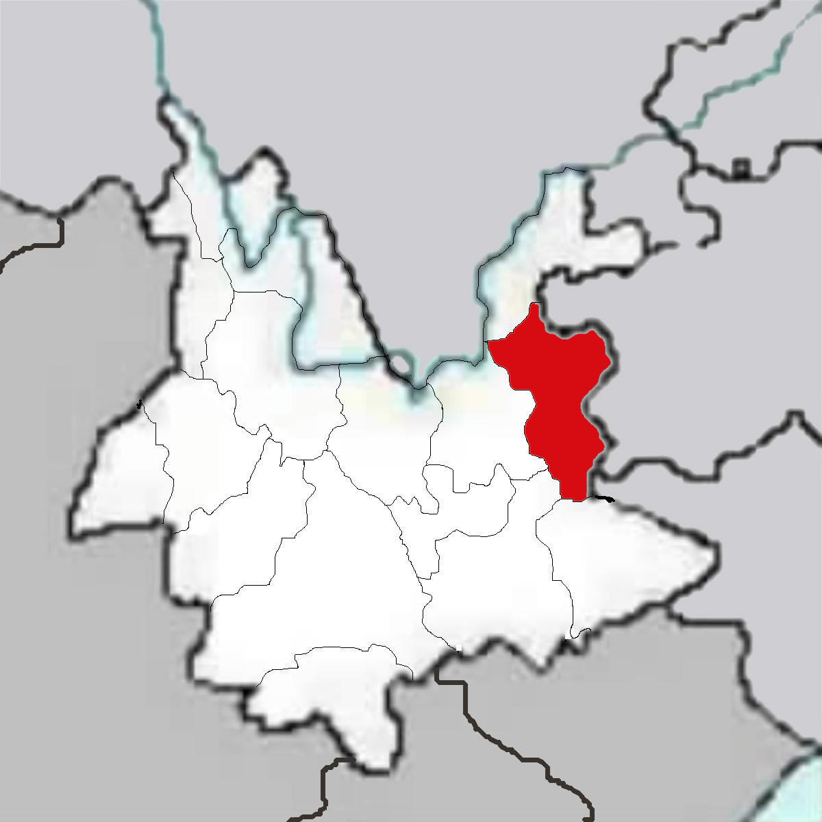 Yunan(云南) Province of China